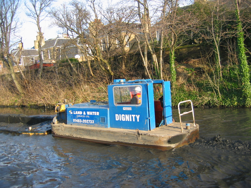 Dredger on the Union Canal, Scotland